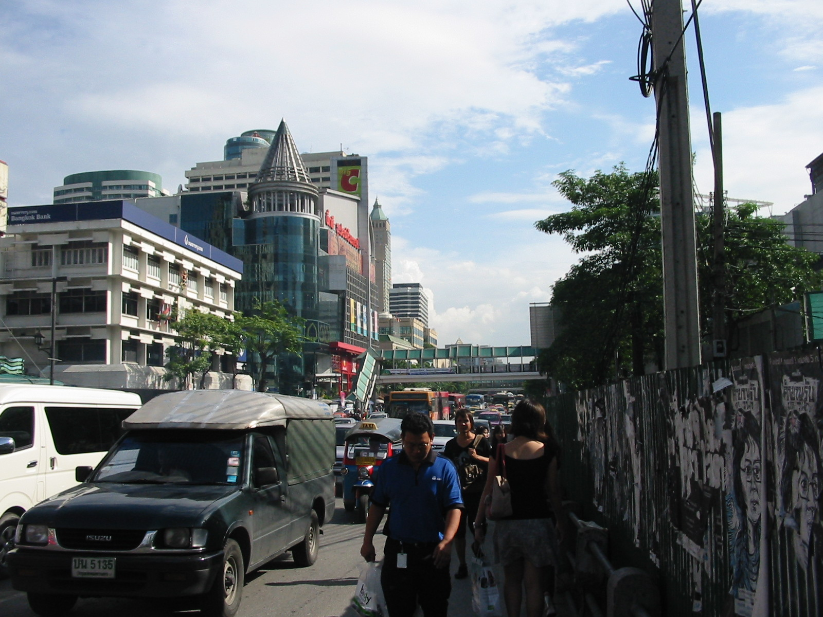 Ratchadamri Road